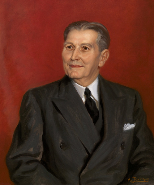 Phot of a painting of John Kee, US Congressman from the WV 5th District